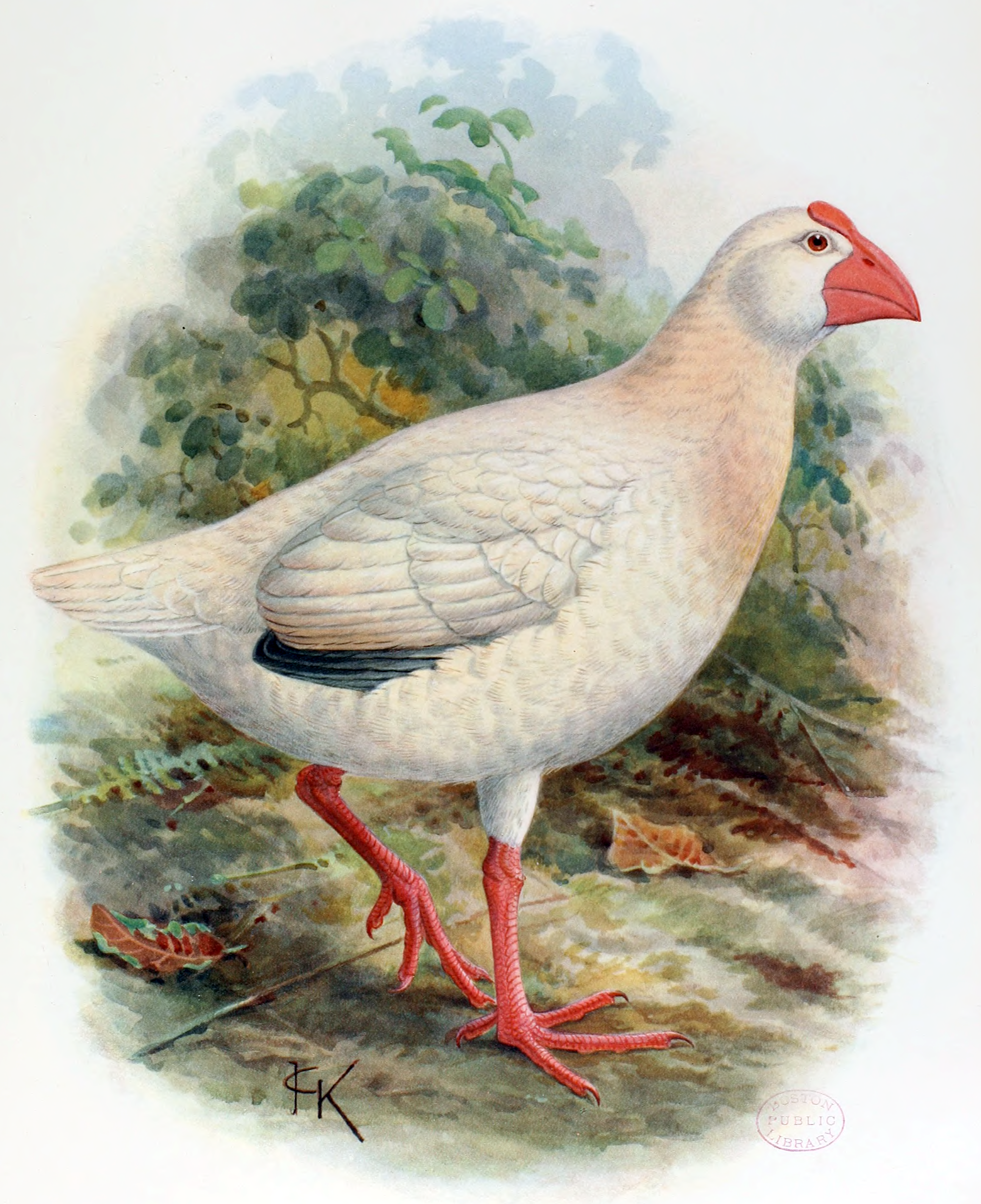 The Lord Howe Swamphen or White Gallinule, Porphyrio albus, was a large bird in the family Rallidae endemic to Lord Howe Island, Australia.